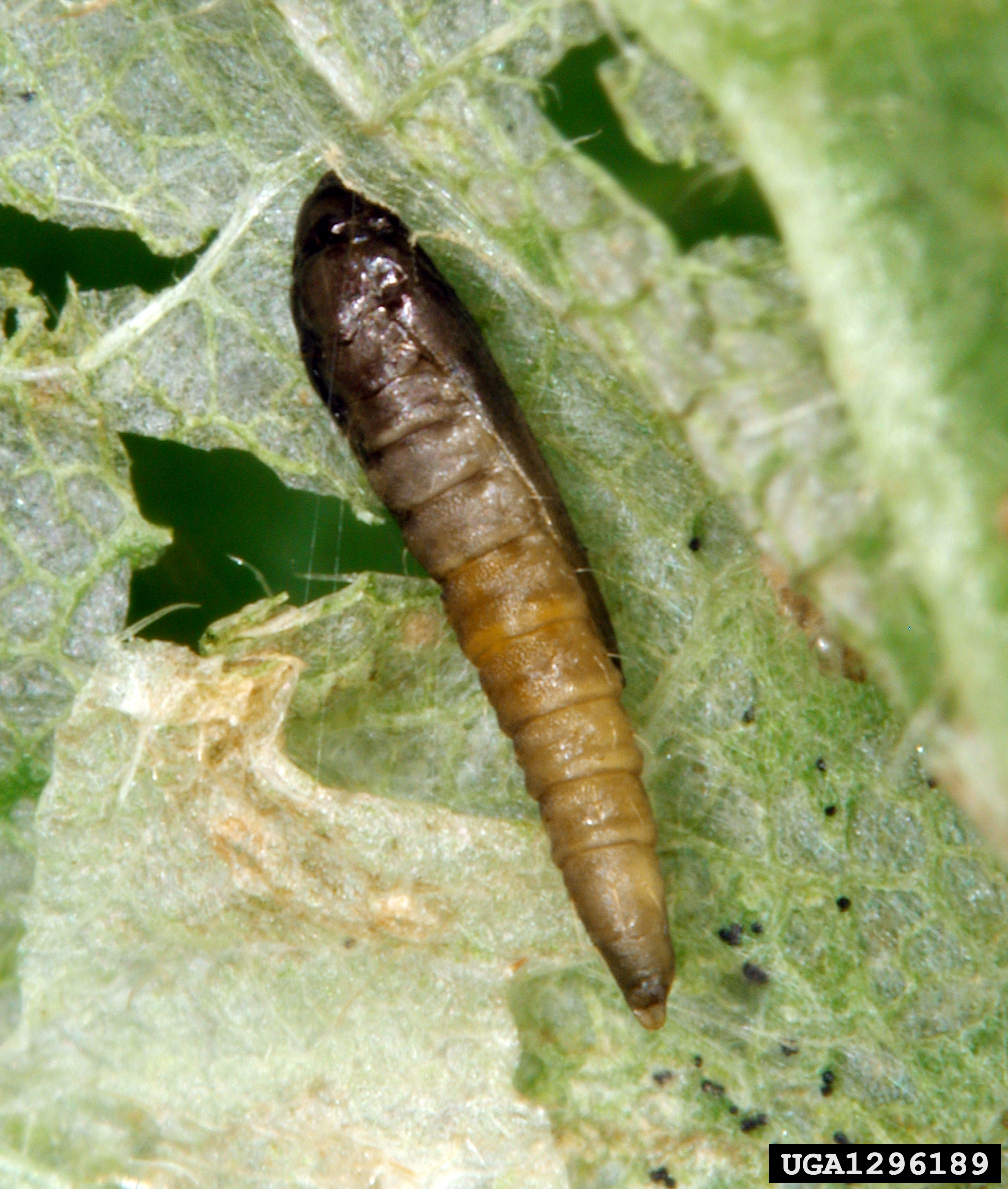 Phyllonorycter issikii